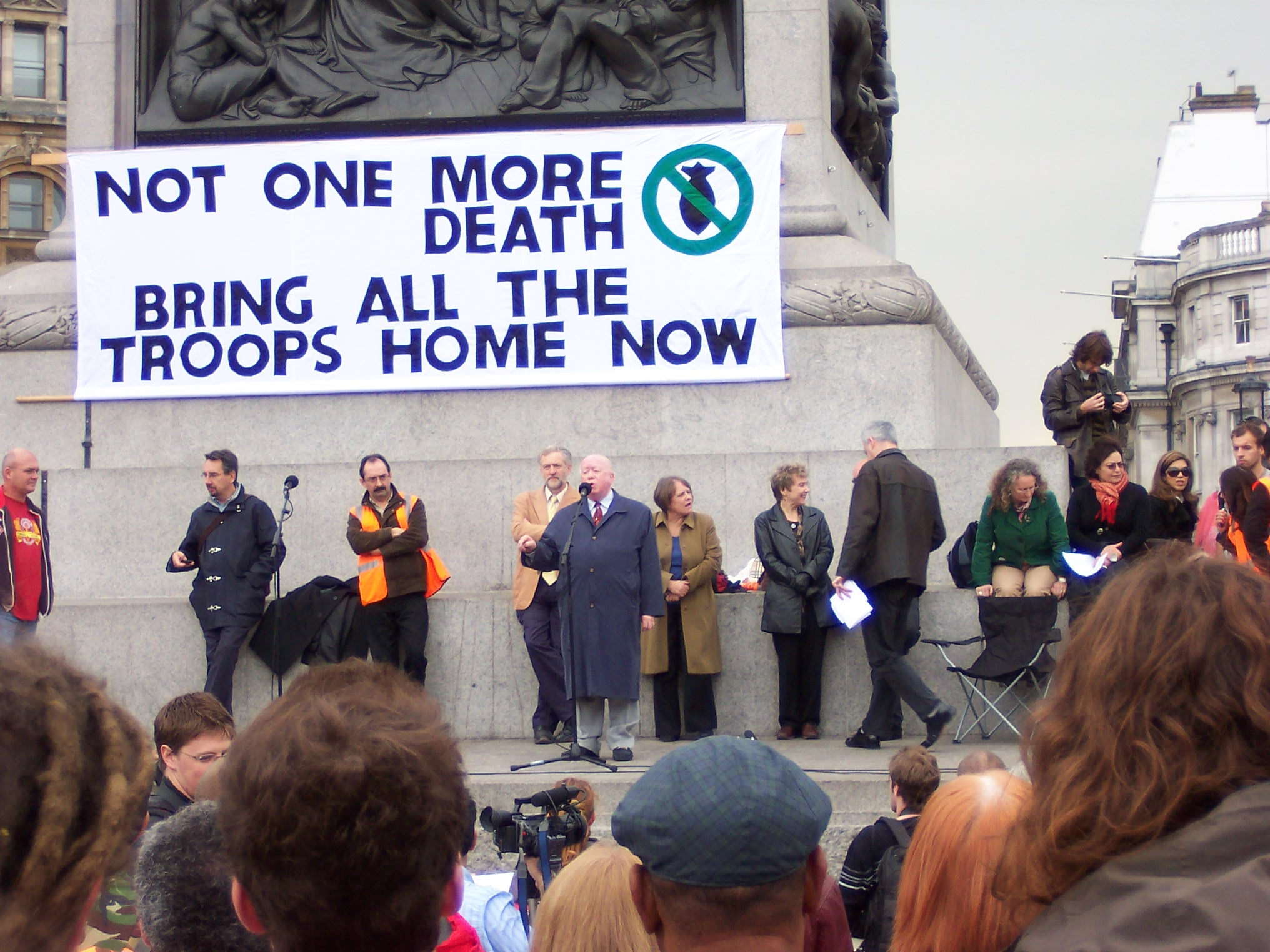 Rebellious Old-School Labour MP I think